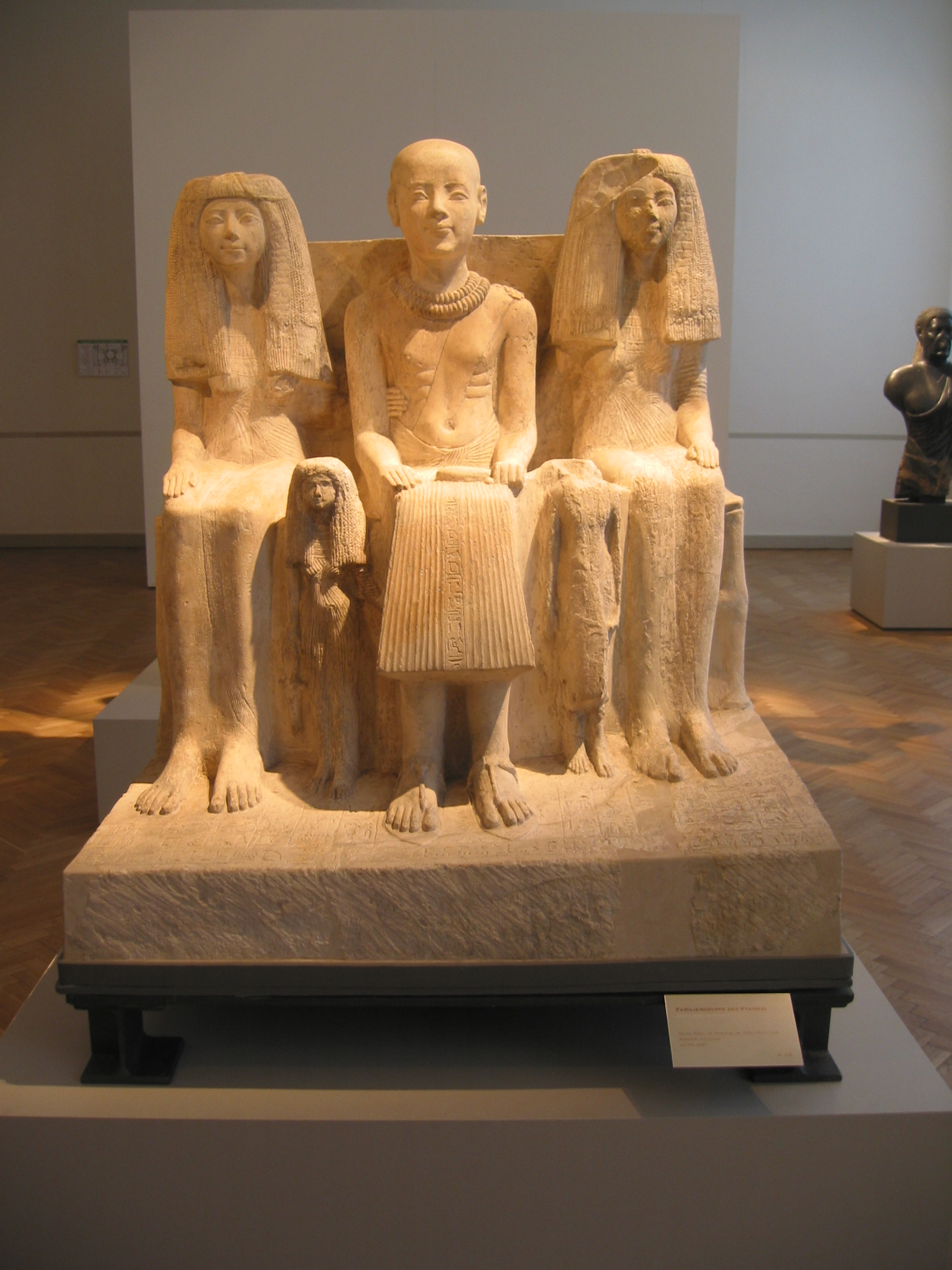 Object in the Ägyptisches Museum Berlin (Egyptian museum, building of the New Museum), Berlin.